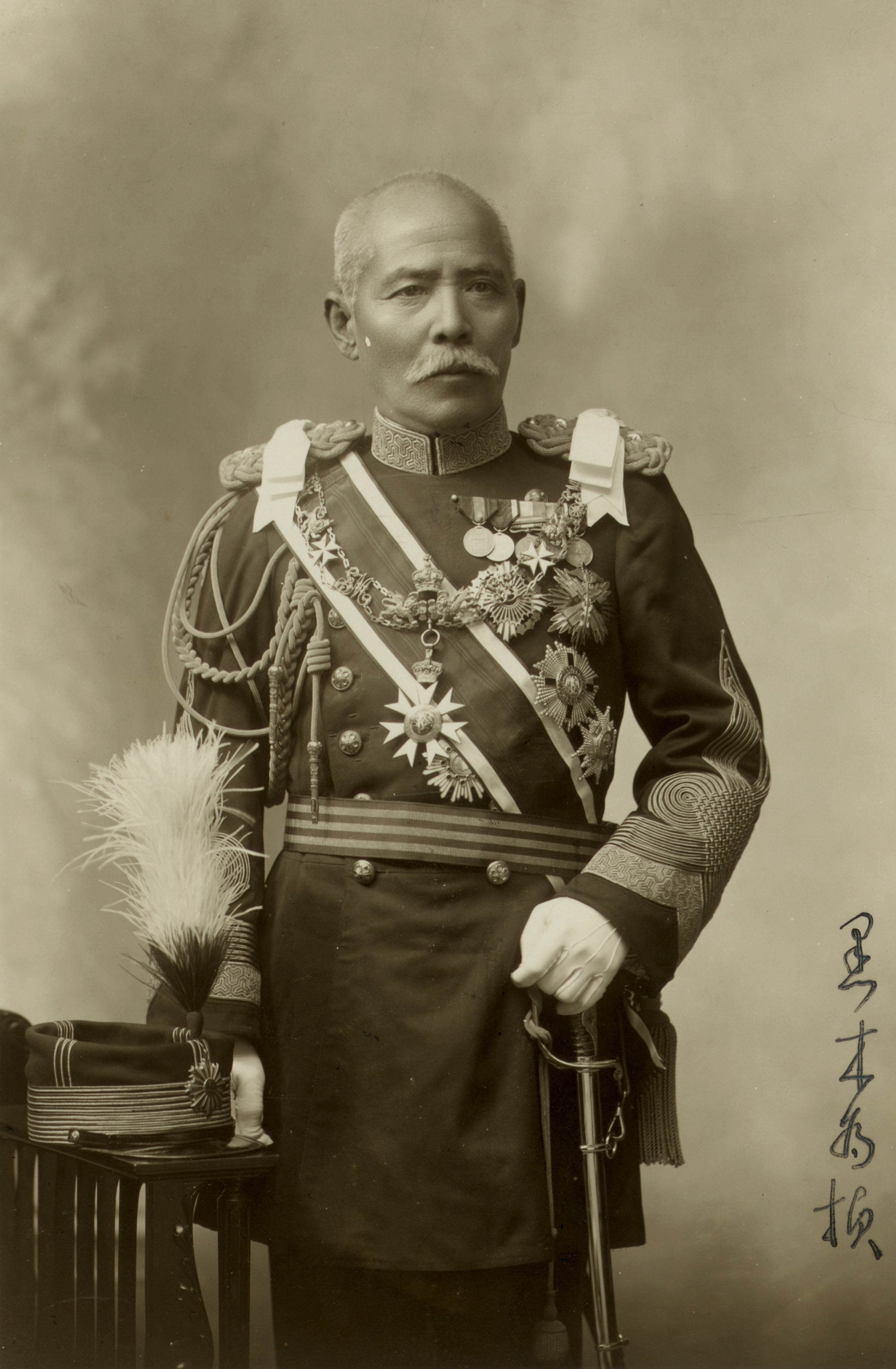 General Baron T. Kuroki, three-quarter length portrait, in uniform, facing front. Photograph autographed in Japanese characters. Written on verso: To Mr. Noble, Chicago, June 2, 1907; General Baron T. Kuroki, photo taken in Tokio, Japan, and autographed. (original text)